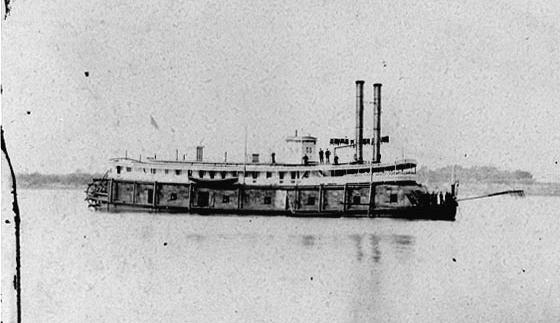 Cropped photograph of the USS Naiad (Tinclad #53) on the Western Rivers during the American Civil War, reproduced as a stereograph. Note mine-clearing "rake" projecting from her bow.